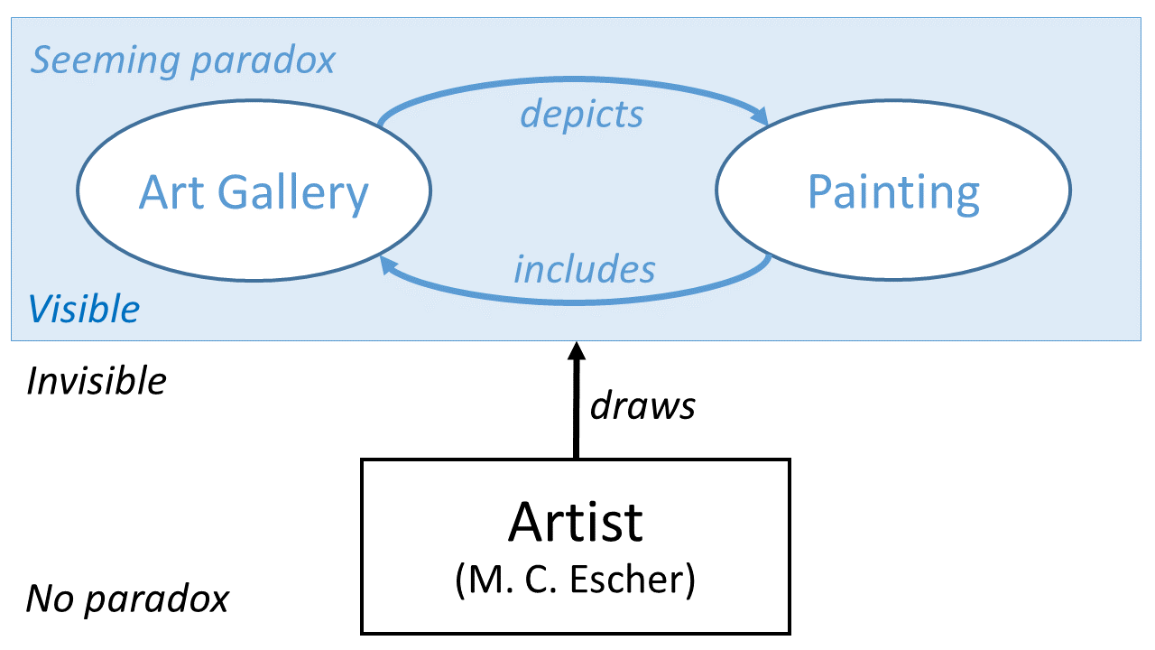 Diagram of the apparent paradox and semiotic joke embodied in M. C. Escher's 1956 lithograph Print Gallery, as discussed by Douglas Hofstadter in his 1980 book Gödel, Escher, Bach. The painting depicts a seaside town containing an art gallery which seems to contain a painting of the seaside town, something being paradoxical about the levels of reality in the image. The artist himself is not seen; his reality and his relation to the lithograph are not paradoxical.